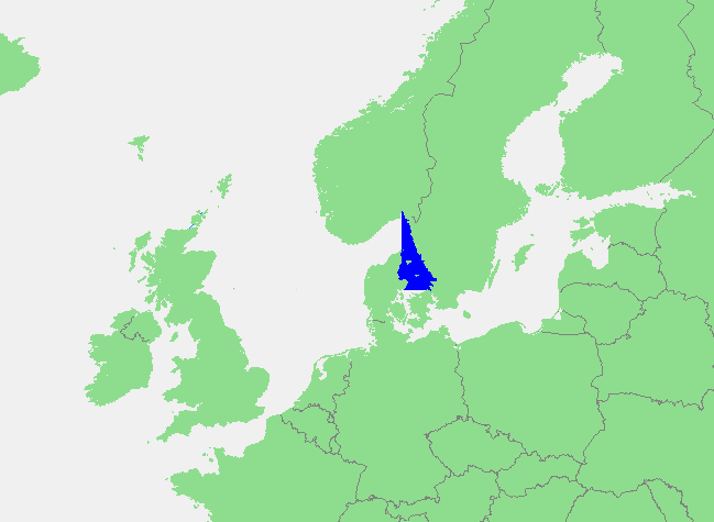 Location map of Kattegat — a strait-bay of the North Sea and an outlet of the Baltic Sea.